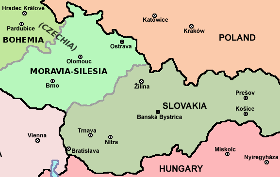 Map of Czech-Slovakia border